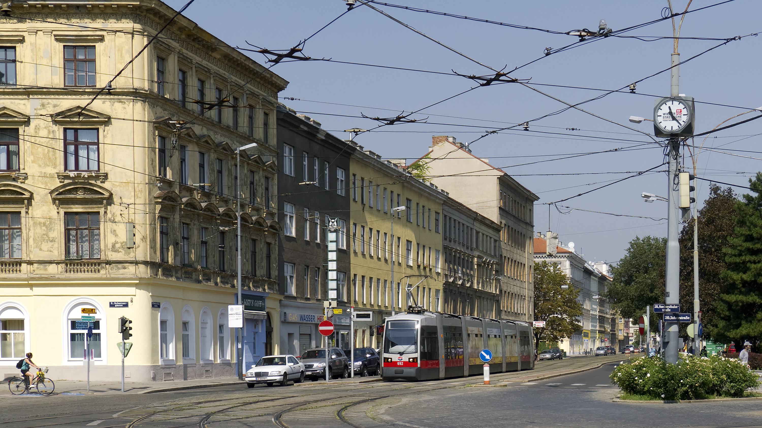 Tram Line Linie 5, Station Am Tabor, Vienna